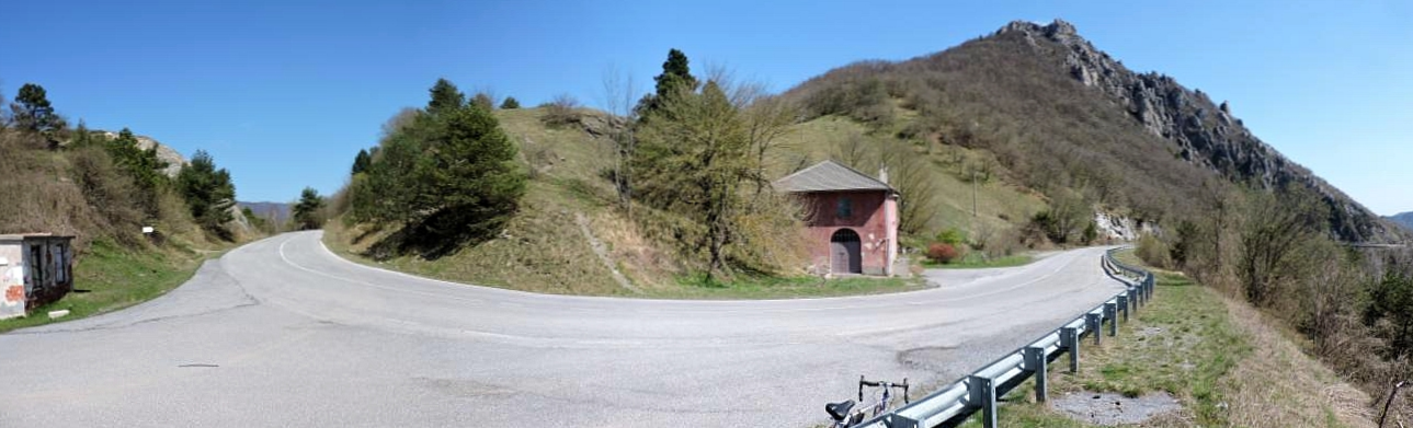 Colle Scravaion (SV, Italy): Ligurian Sea side, with the Rocca Barbena on its right